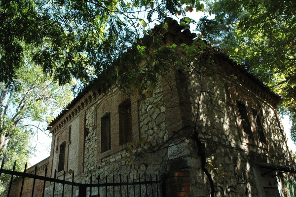 Building water tank of Guadalajara, Spain.